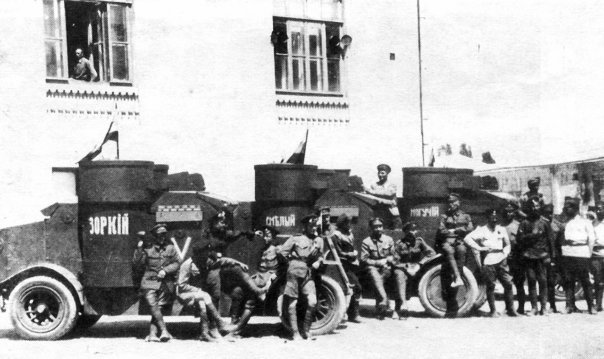 Armored cars "Austin" passed to white army by allies. Novorossiysk, 1919